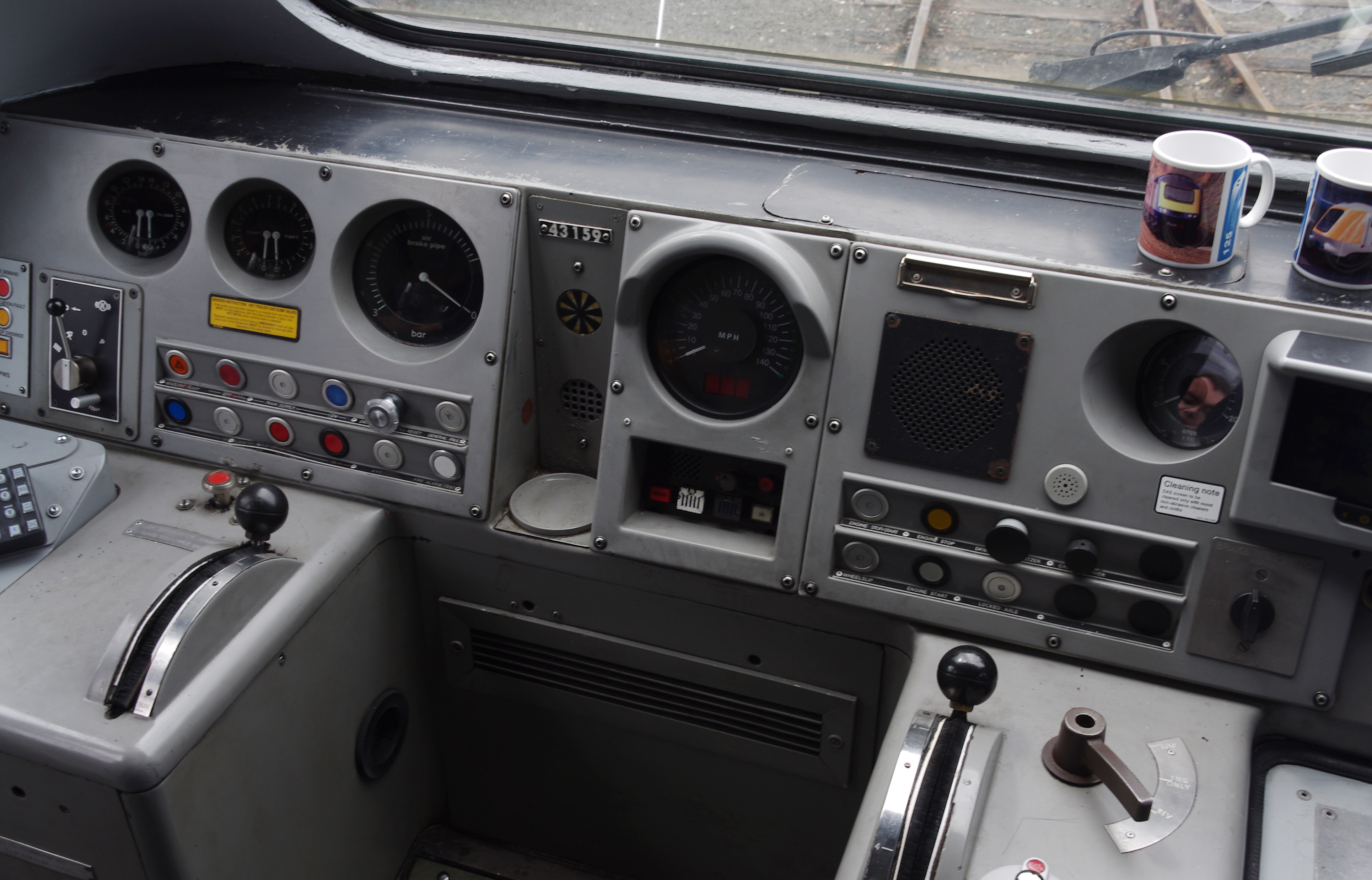 Interior of First Great Western class 43 HST power car 43159 at Railfest 2012.